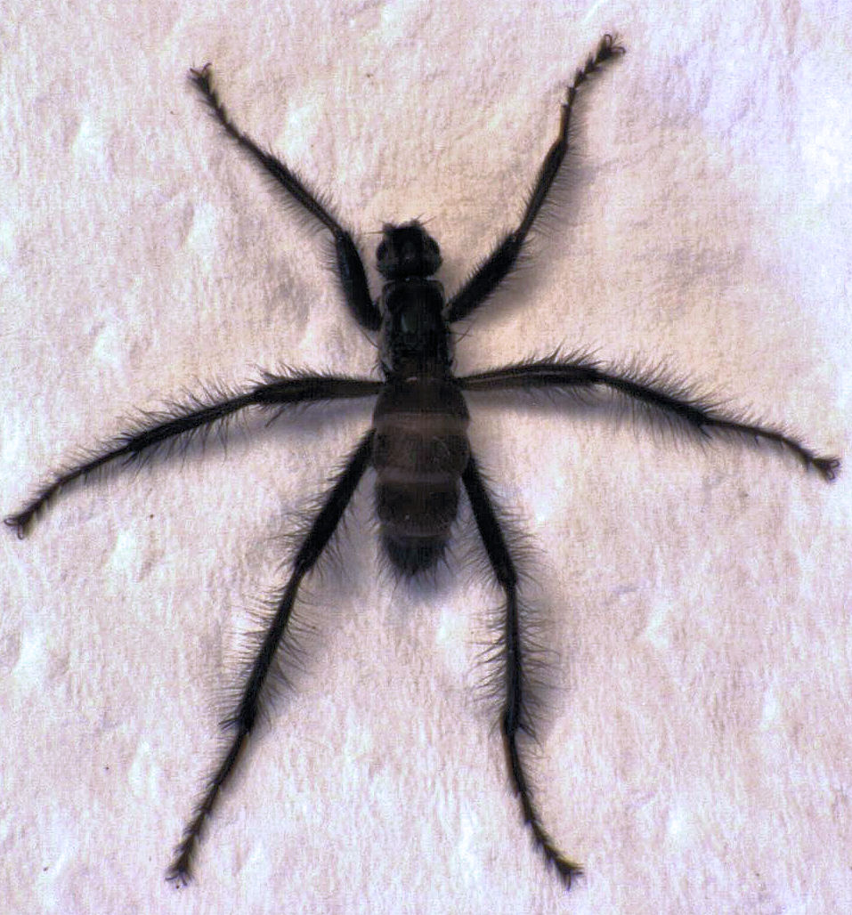 adult male Icaridion nasutum, length about 6.5 mm